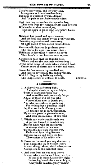 From: Bower of Taste (Boston: Dutton & Wentworth, Exchange St., 1828)